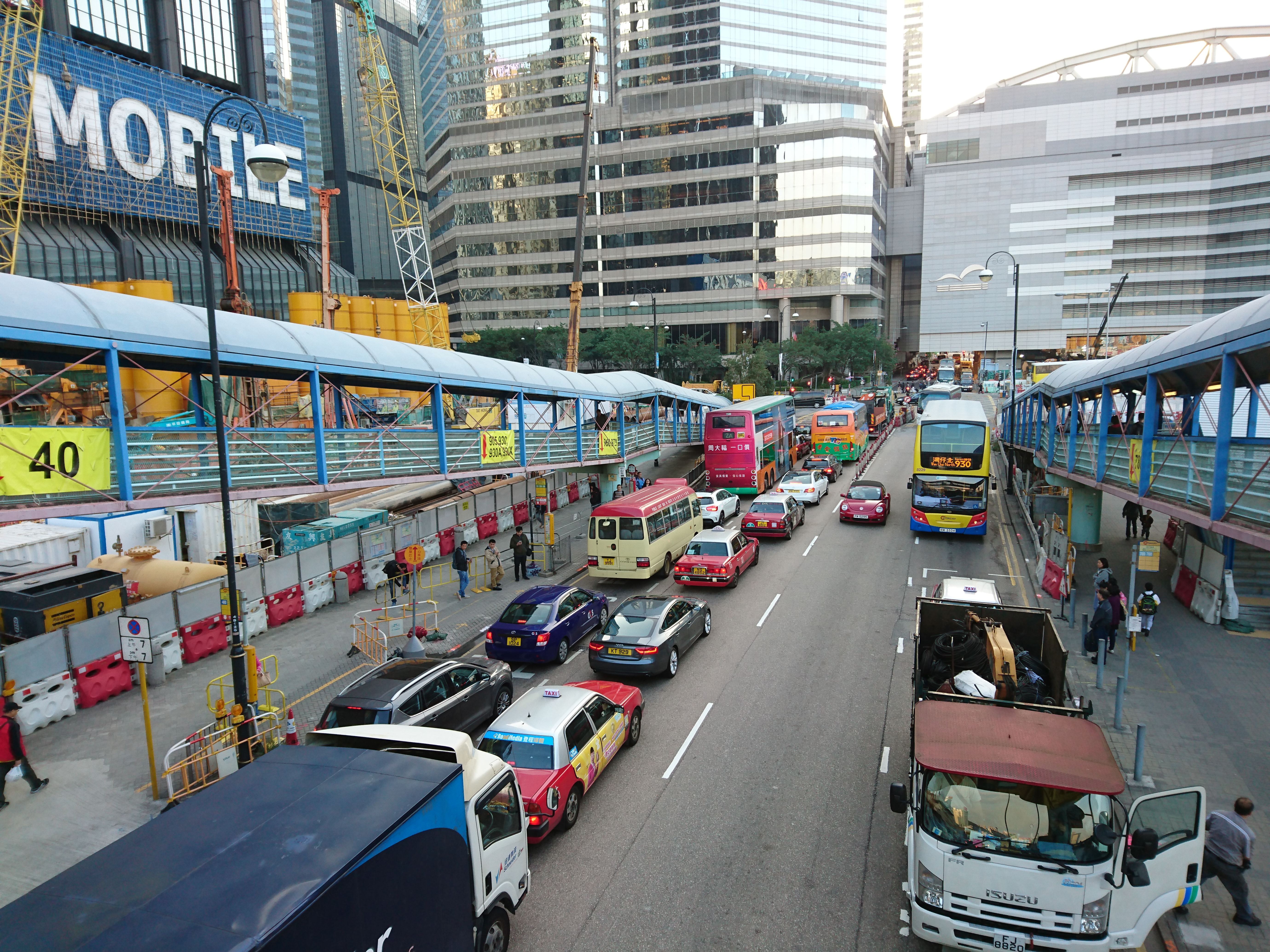 Convention Avenue near Wan Chai Pier towards West